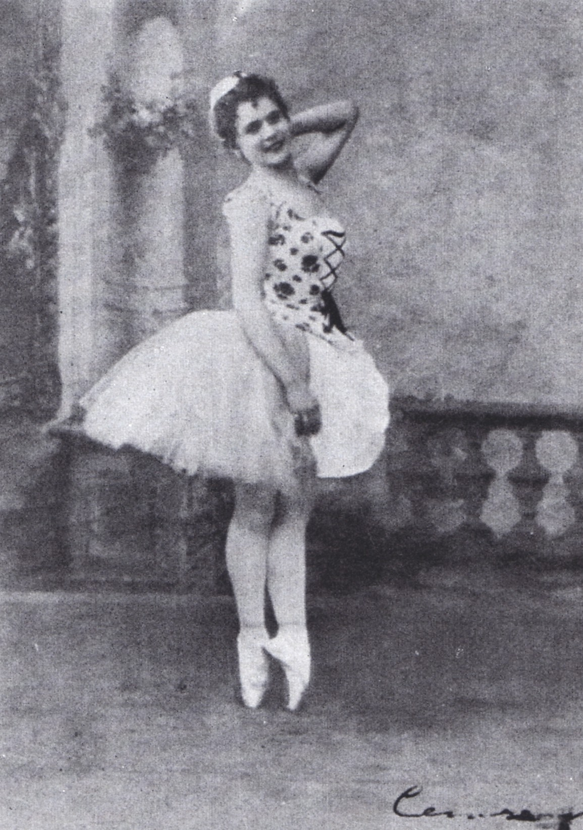 Pierina Legnani (1863-1923), Prima ballerina assoluta of the St. Petersburg Imperial Theatres. She is costumed for the ballet Cinderella (Zolushka).